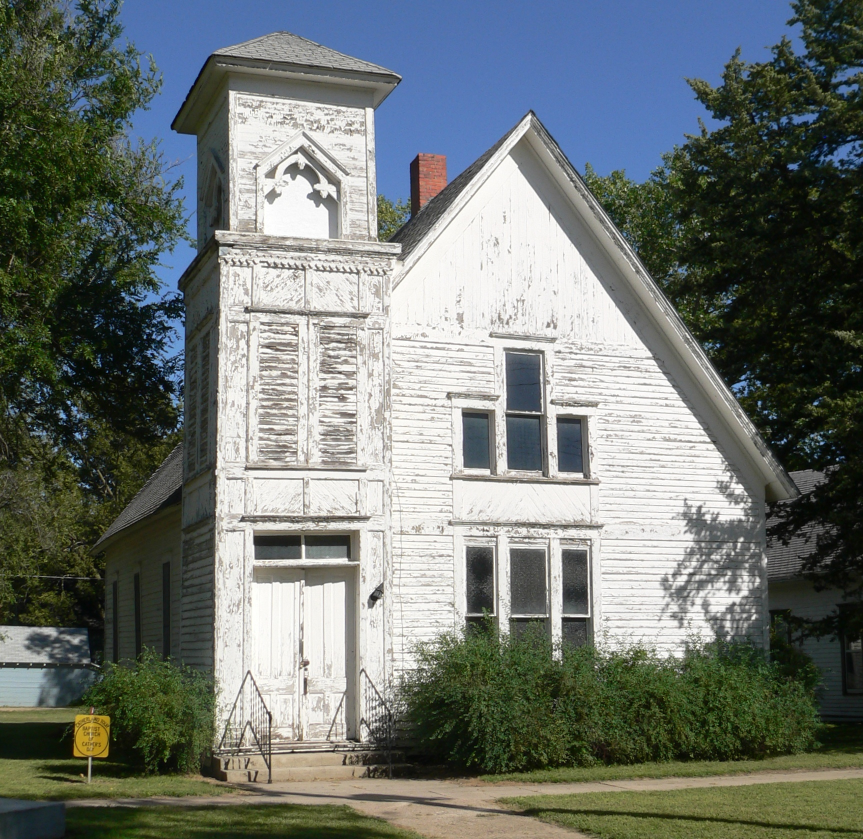 First Baptist Church, located at southeast corner of 5th Avenue and Seward Street in Red Cloud, Nebraska; seen from the northwest. The 1884 church is listed in the National Register of Historic Places.